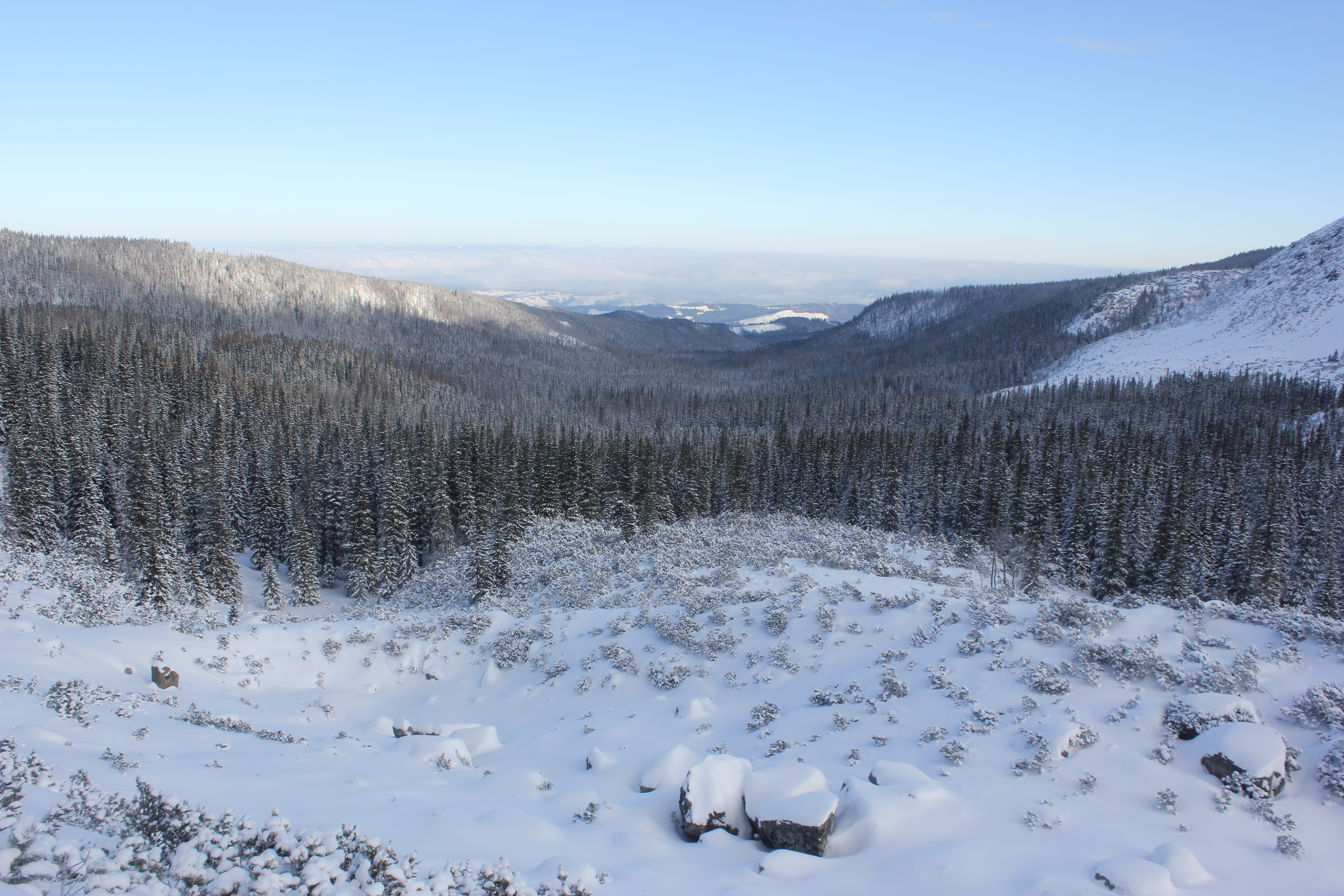 Valley of Sucha Woda